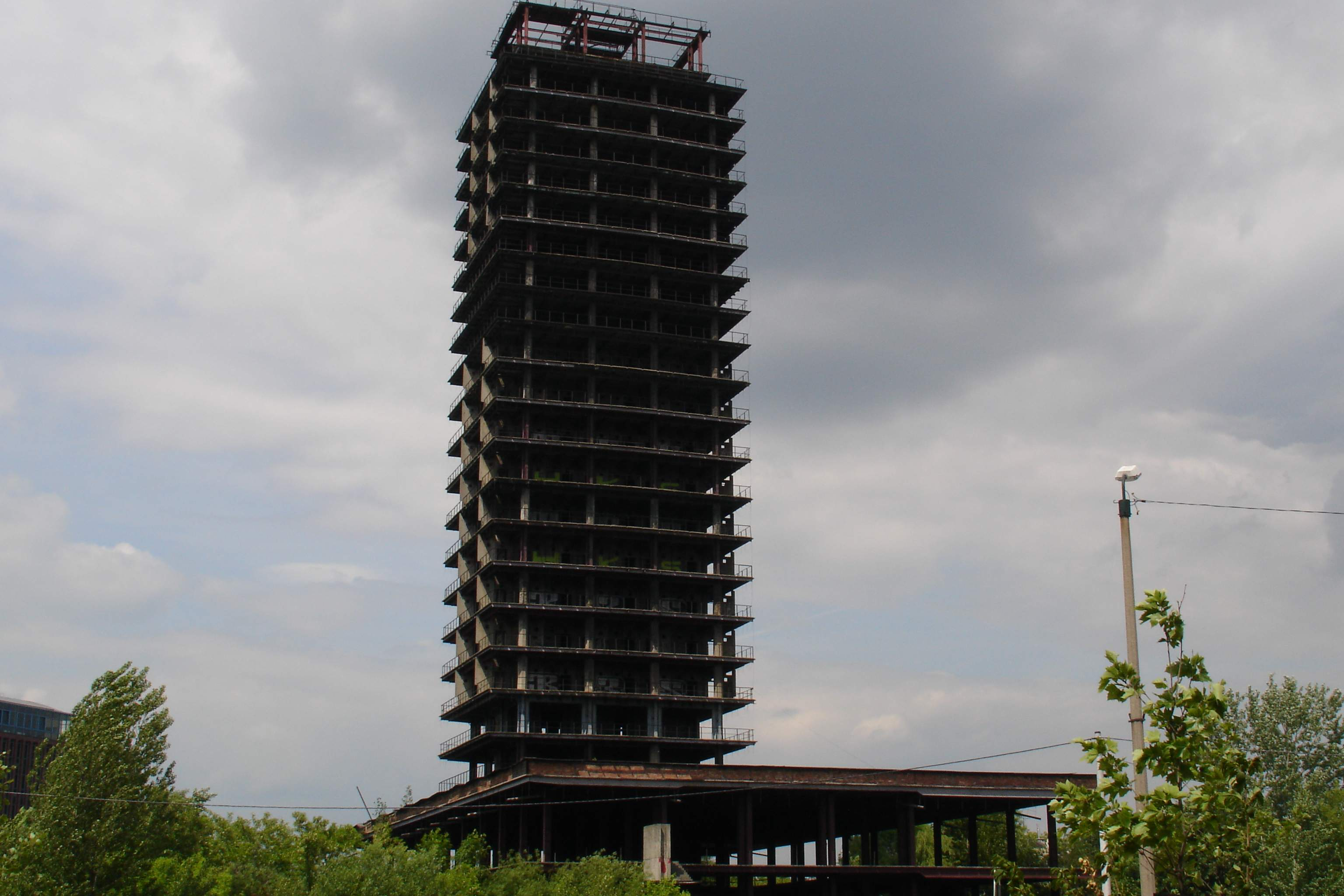 Szkieletor in Kraków